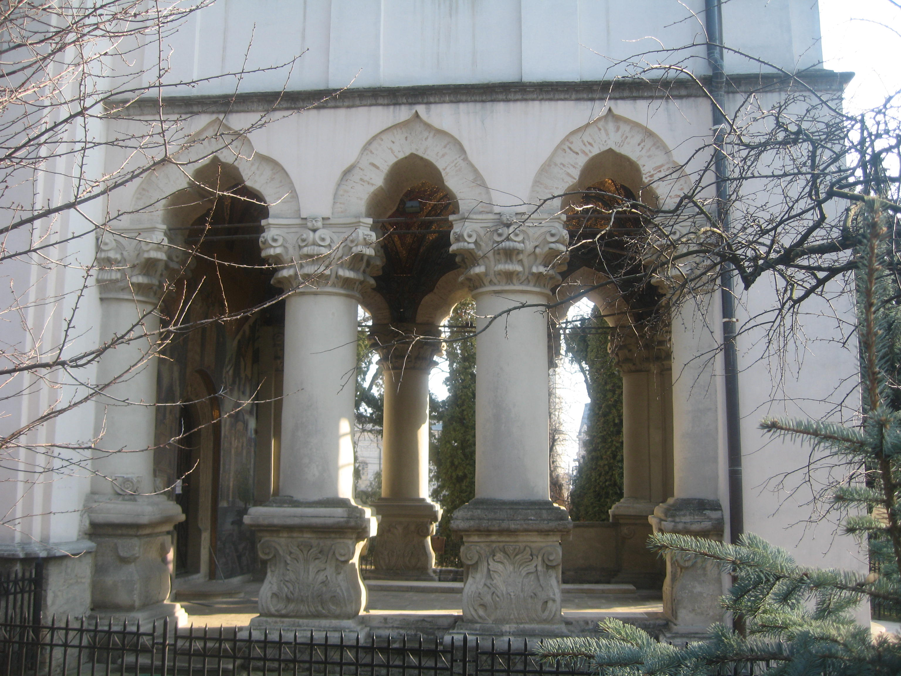 St.George Church in Iași (old Metropolitan Cathedral)